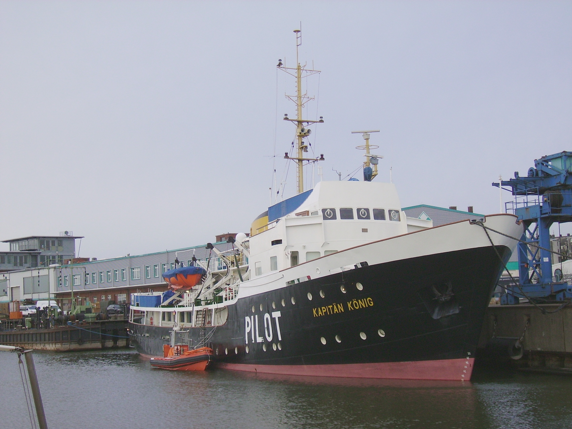 The German pilot boat Kapitän König